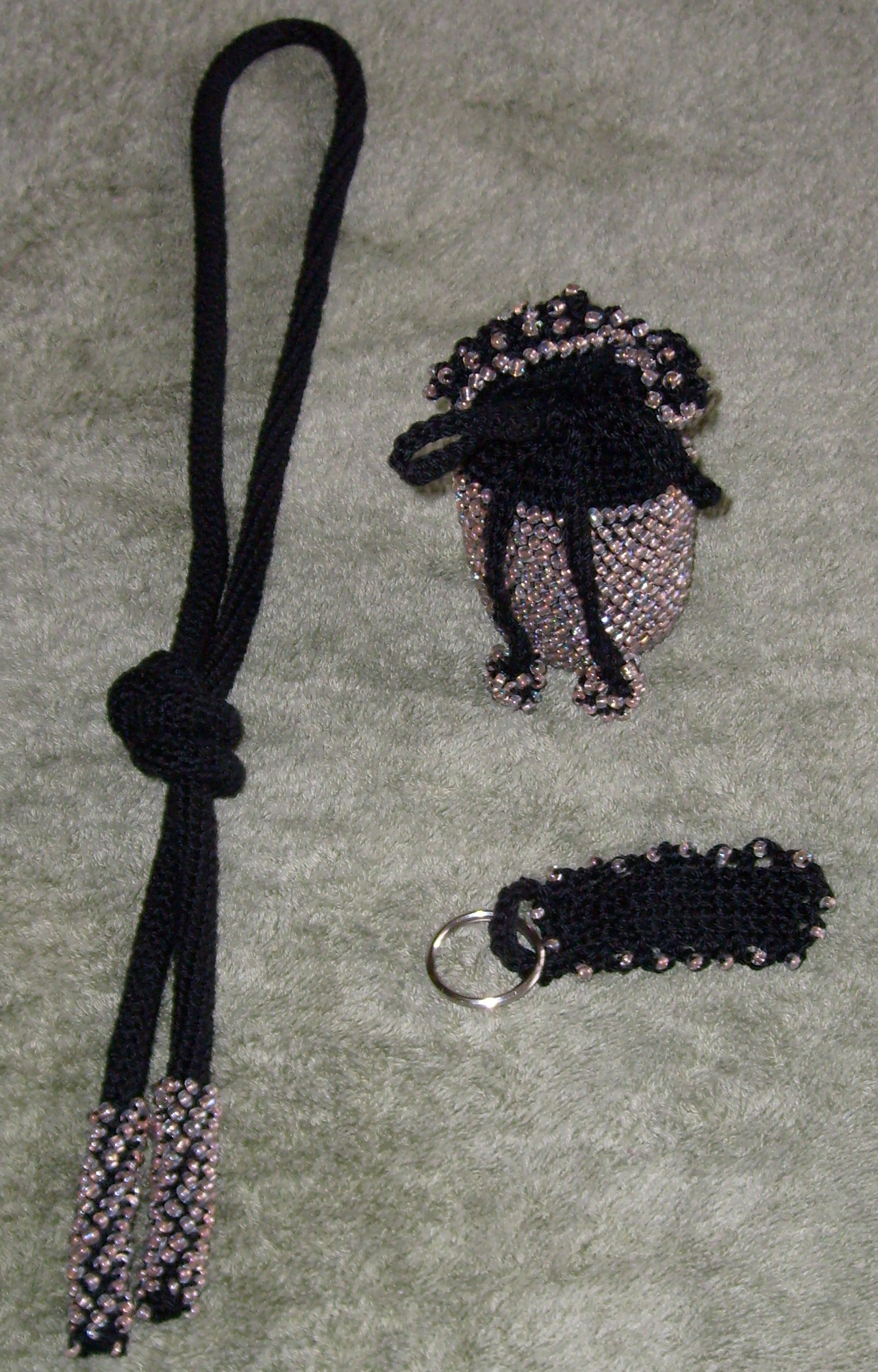 Assortment of bead crochet items: convertible necklace/belt, change purse, and keychain. No. 3 cotton mercerized thread and opal-lined size E glass beads worked on 2.25mm hook. Original designs.